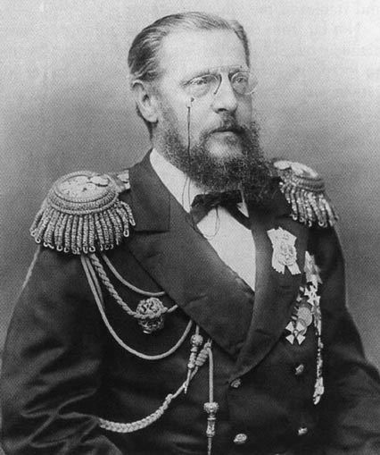 Grand Duke Konstantine Nikolaevich, Admiral of the Russian fleet.